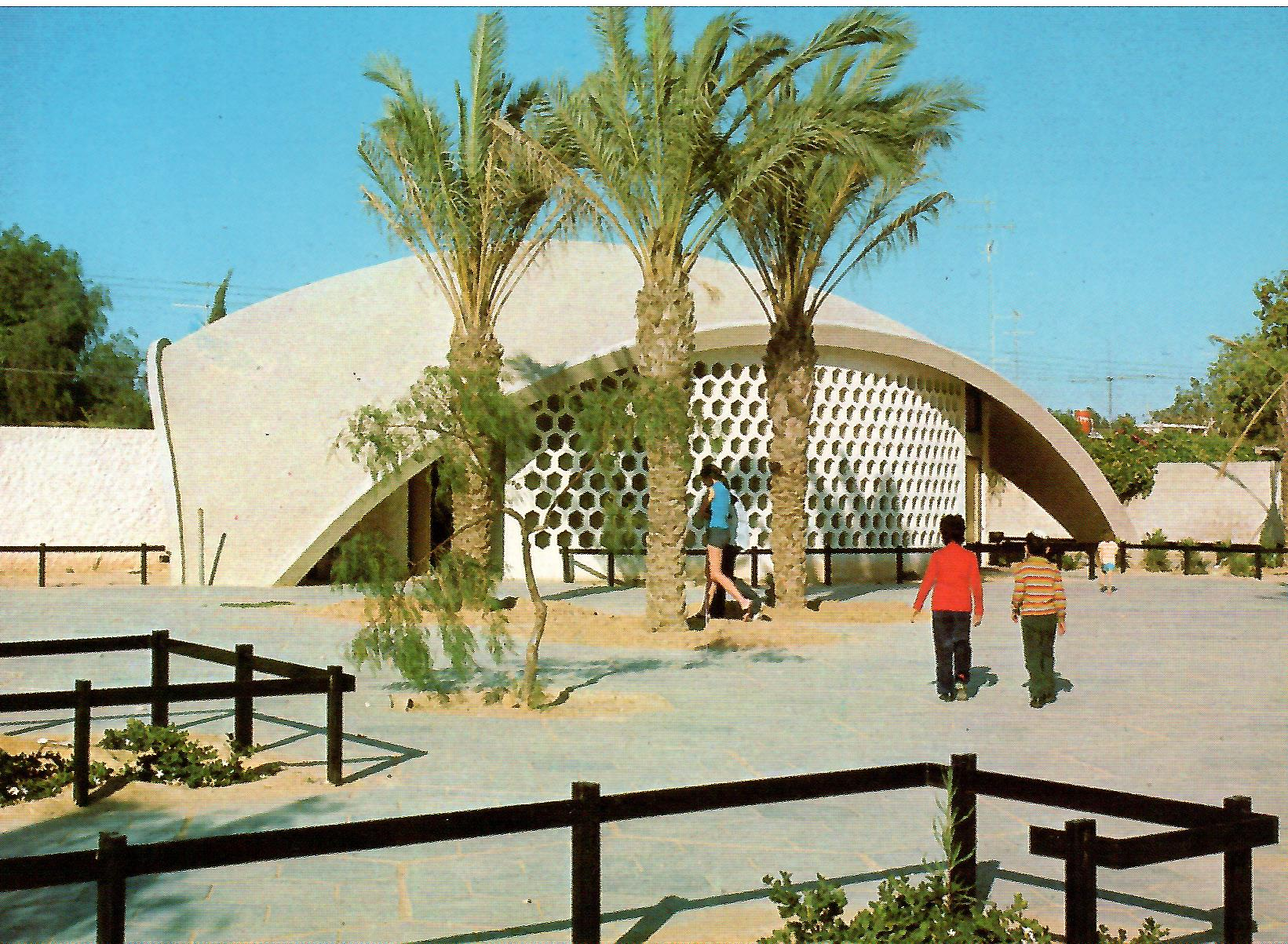 Beit Haknesset HaAl-Adati, Hakippah, and Beit Hamidrash Netivei-Am Shechuna Hey Ledugma, Beer-Sheva. Exterior Image. 1971